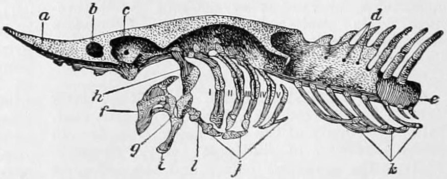 Skull of a sturgeon with membrane bones removed.